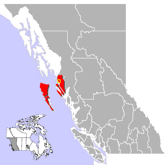 Location of Prince Rupert, Skeena-Queen Charlotte District, BC